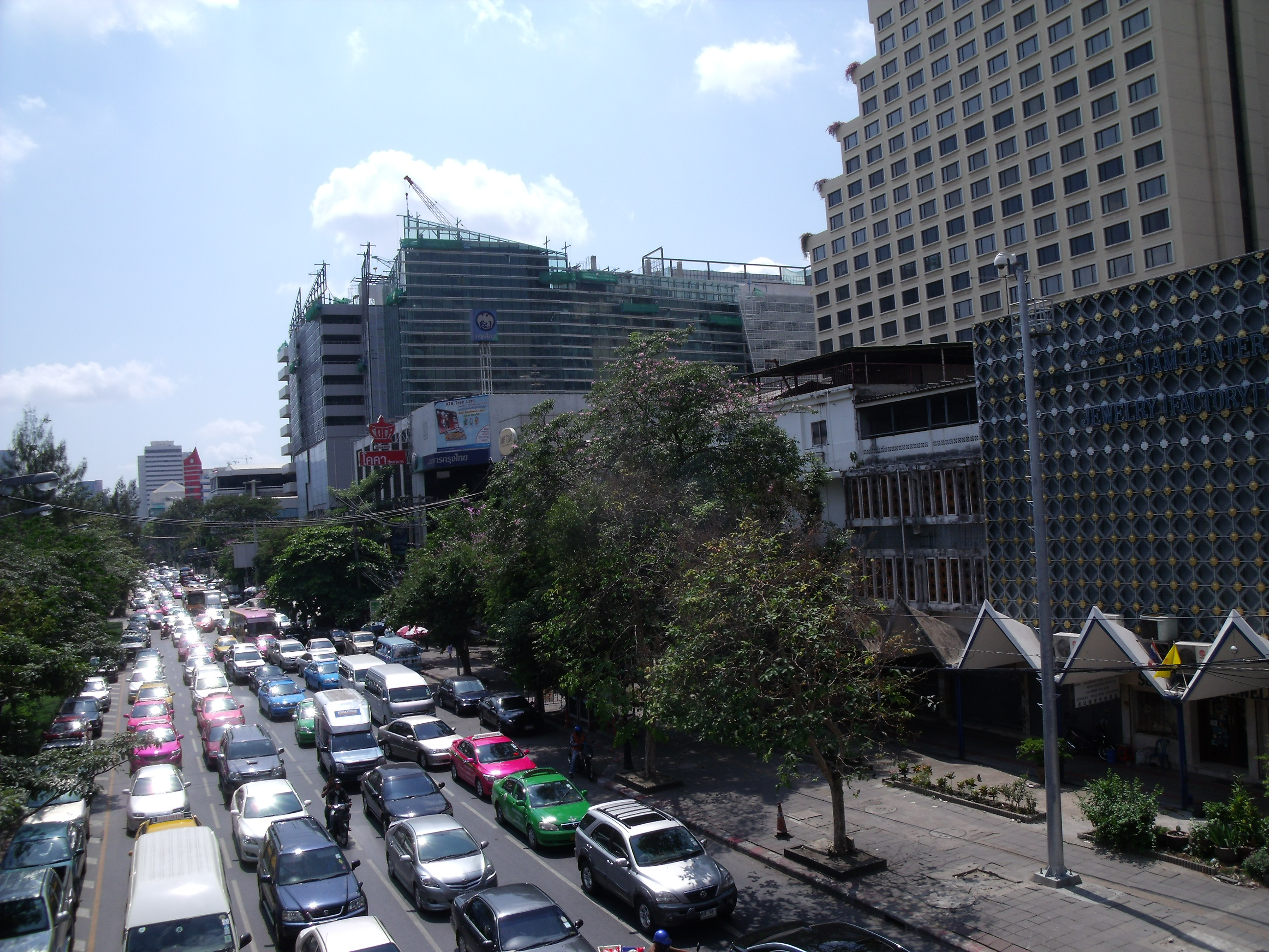 Traffic jam in Bangkok, Thailand.